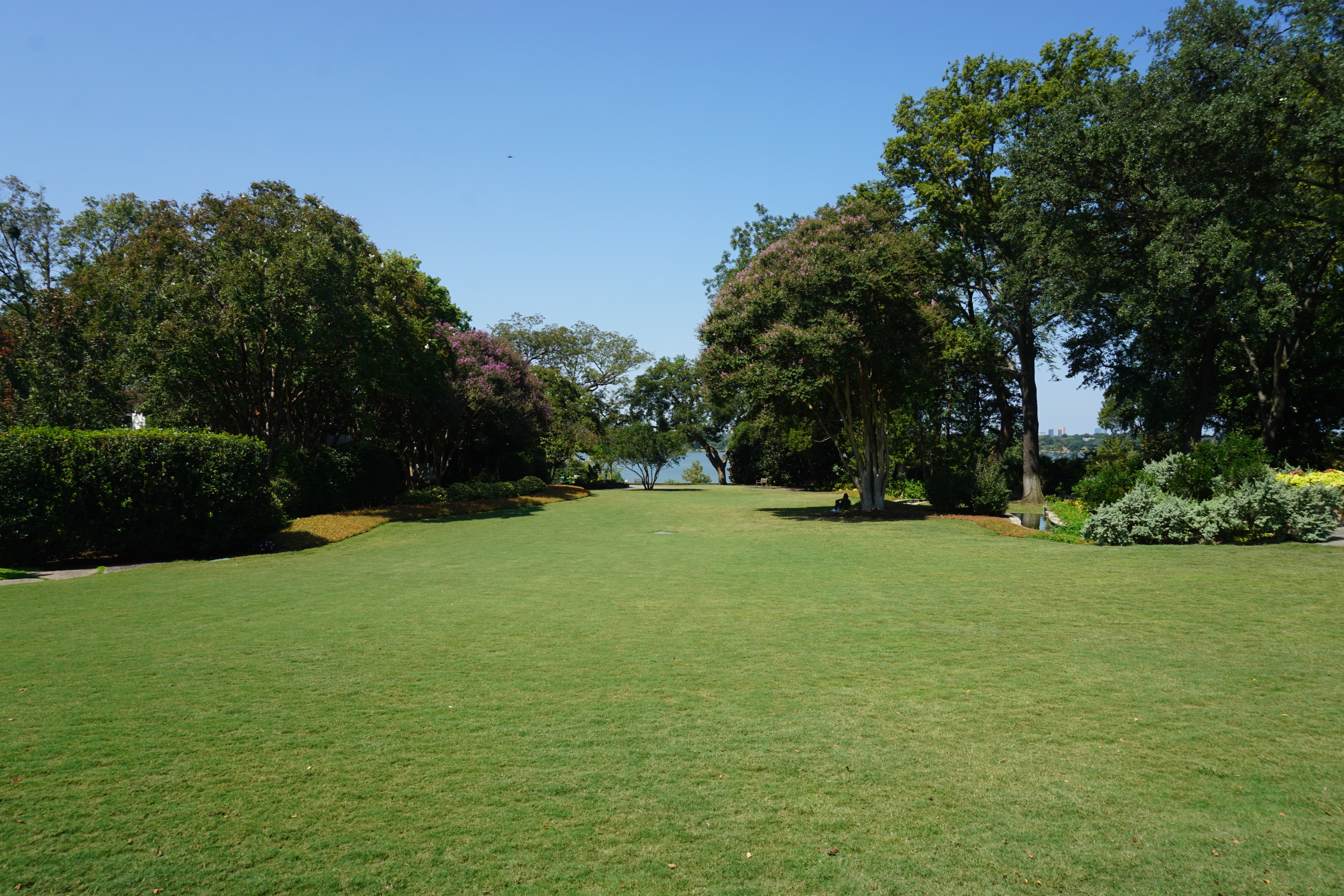 The Lay Family Garden at the Dallas Arboretum and Botanical Garden in Dallas, Texas (United States).